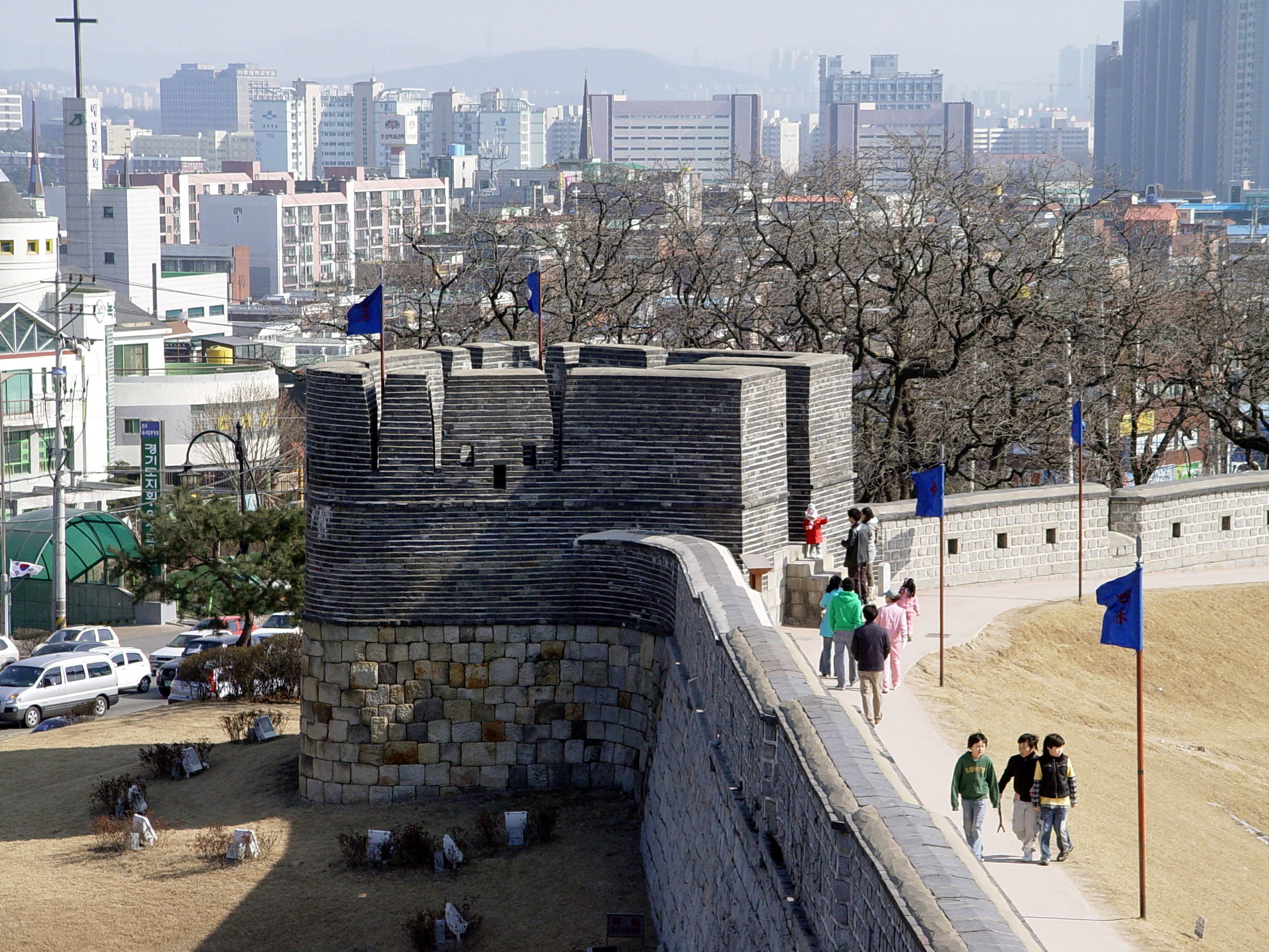 Dongbuk Nodae, Hwaseong Fortress, Suwon, South Korea - Seen from Dongbuk Gongsimdon